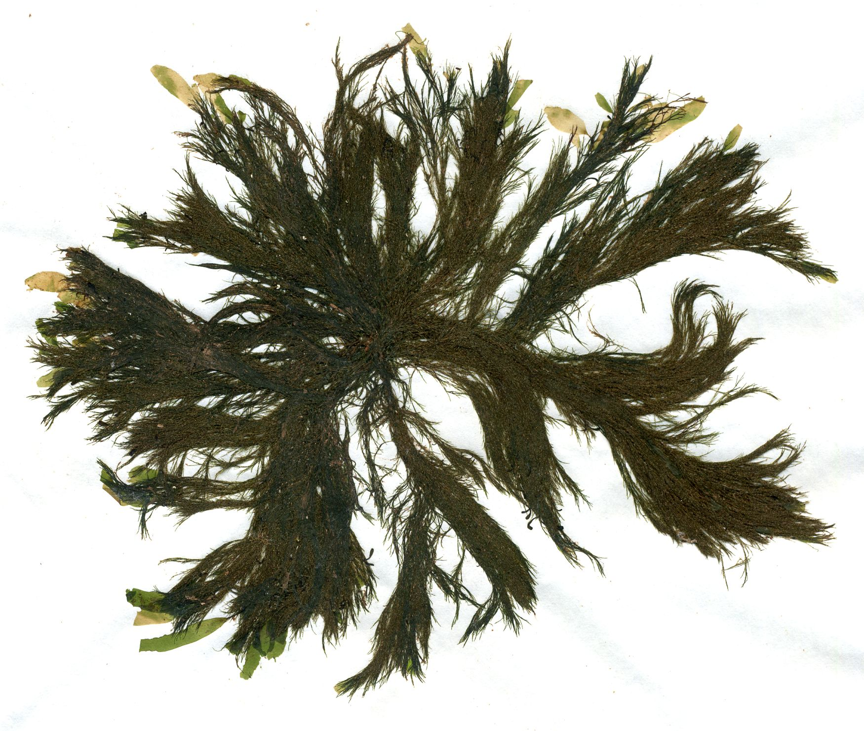 Cladophora rupestris (L.) Kütz., herbarium sheet. Collected 1985-09-10, Heligoland (Germany)